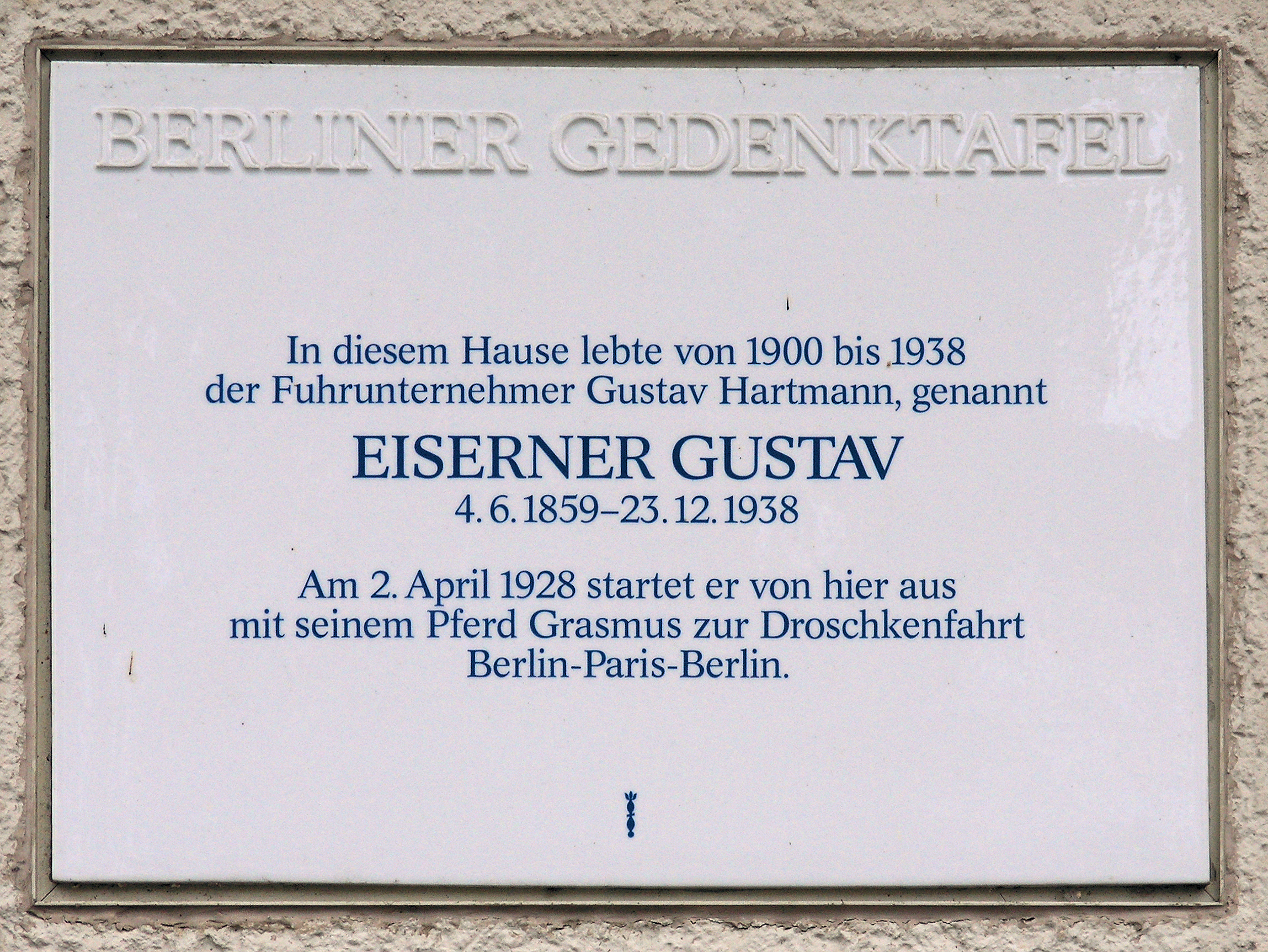 Berlin memorial plaque, Gustav Hartmann, Alsenstraße 11, Berlin-Wannsee, Germany